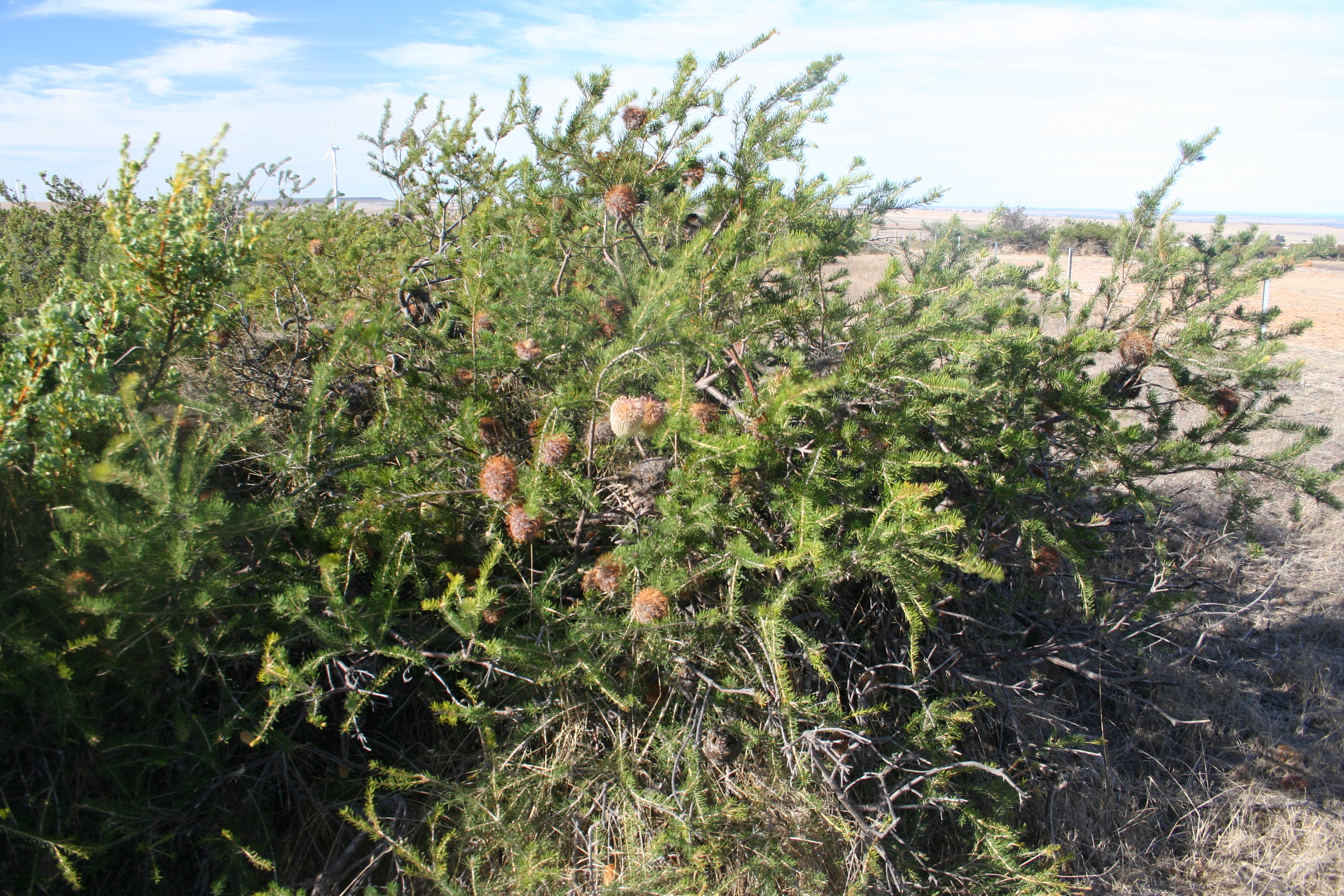 Banksia scabrella (habit), near Alinta windfarm, Western Australia